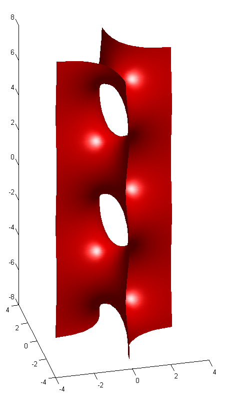 Plot of Scherk's second surface, a minimal surface discovered by H. Scherk in 1834. It has implicit equation sin(z)-sinh(x)sinh(y)=0. The image was plotted in Matlab using isosurfaces.